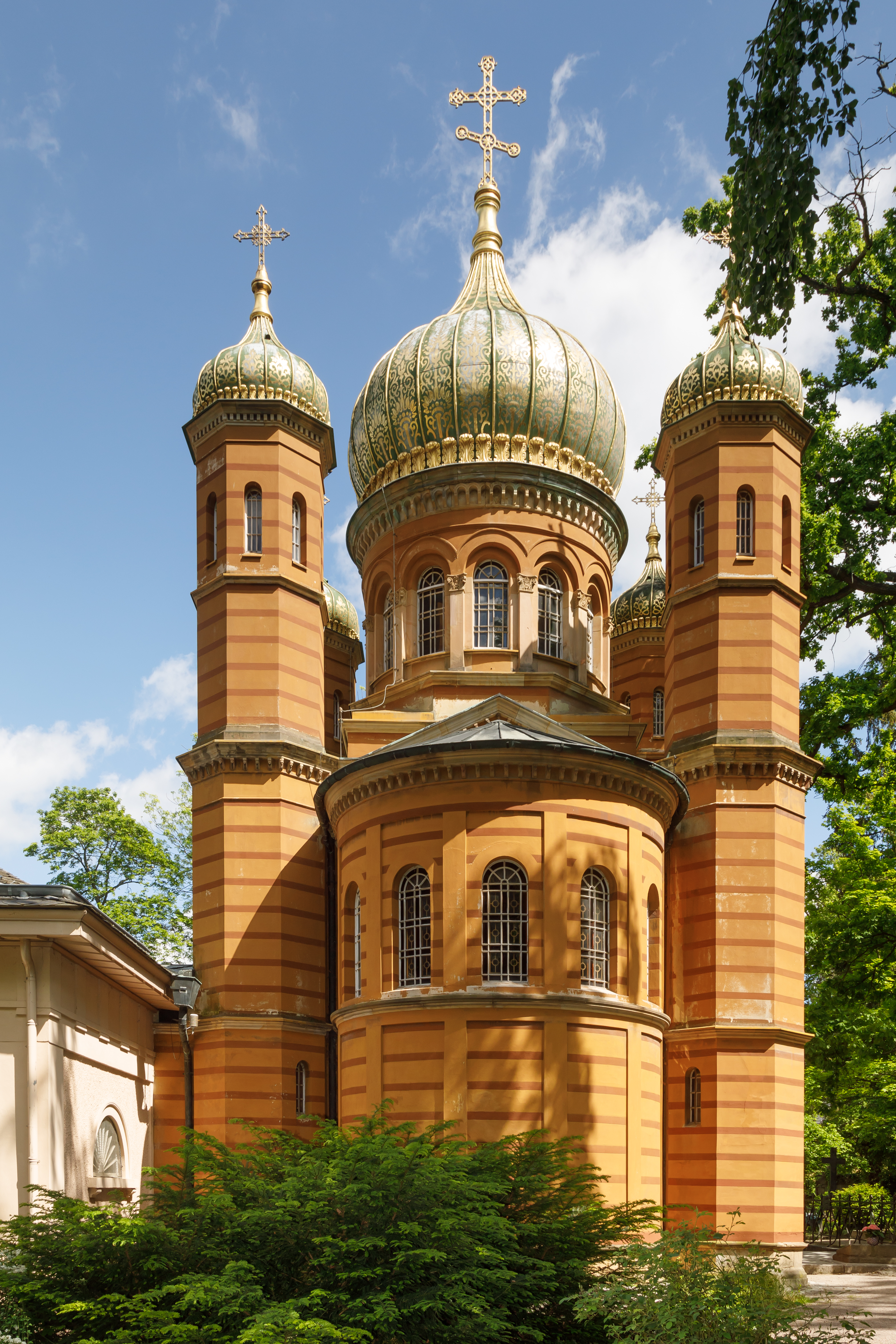 Weimar, Germany: Russian Orthodox Chapell